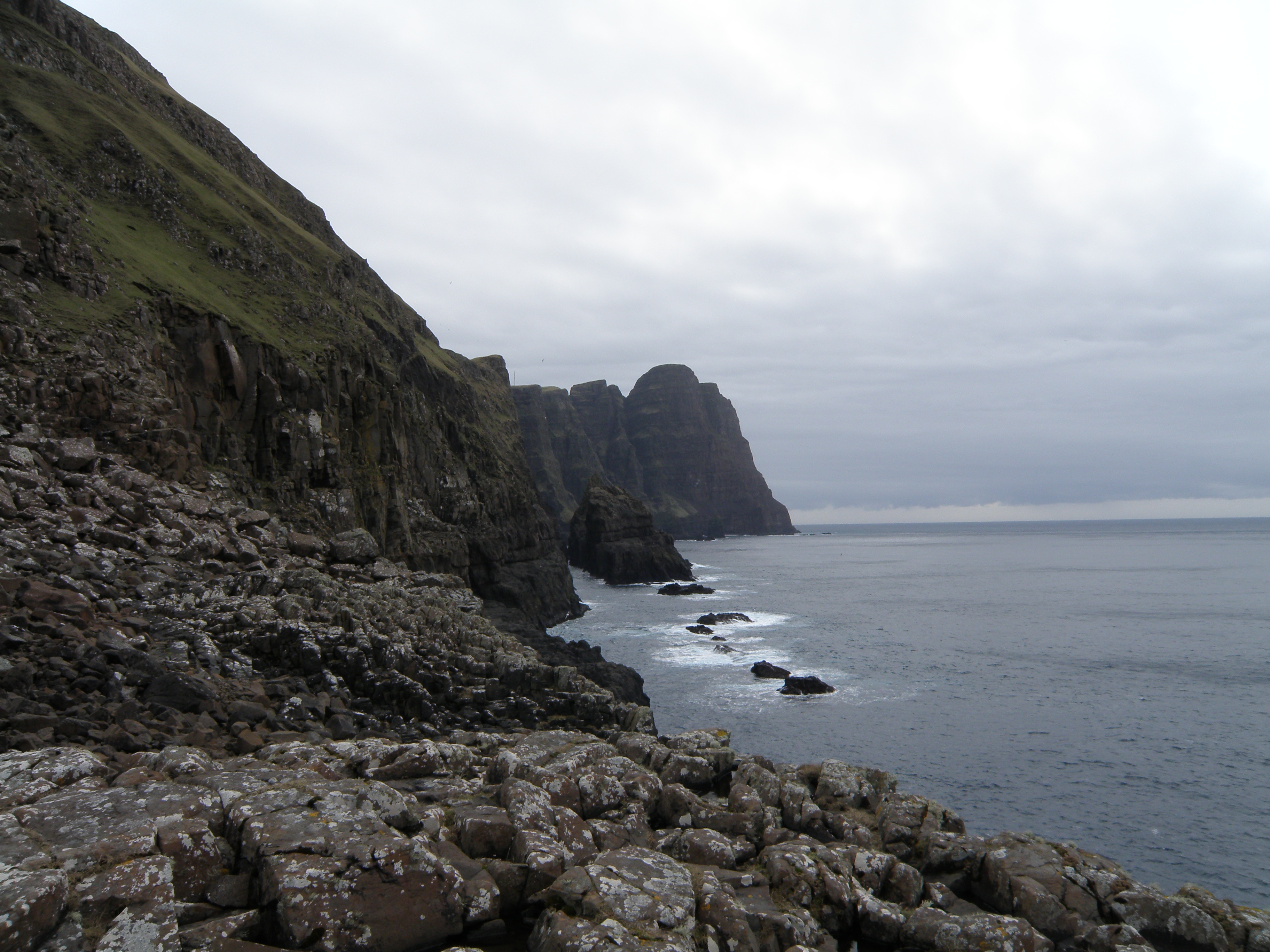 Lopranseiði is on the west coast of the island Suðuroy in Faroe Islands. Lopranseiði is located west of the village Lopra, which is between Sumba and Vágur. The view towards Beinisvørð is amazing. In 1742 a Dutch ship called Westerbeek went shipwreck south of Lopranseiði, on the rocks in the sea, which can be seen on this photo. Føroyskt: Lopranseiði er vestanfyri bygdina Lopra í Suðuroynni. Útsýni móti Beinisvørð er frálíkt. Í 1742 sigldi eitt hollendskt skip, Westerbeek, á land beint sunnanfyri Lopranseiði. Umleið 10 mans doyðu, men hinir 80 kláraðu tað við at klintra upp eftir lodrætta berginum. Nakrir ungir sterkir mans fóru fyrstir upp og brúktu nakrar árar, sum teir bundu saman, síðan gingu nakrir mans til Vágs at heinta hjálp og nakrir gingu til Sumbiar, ongin búði í Lopra tá.